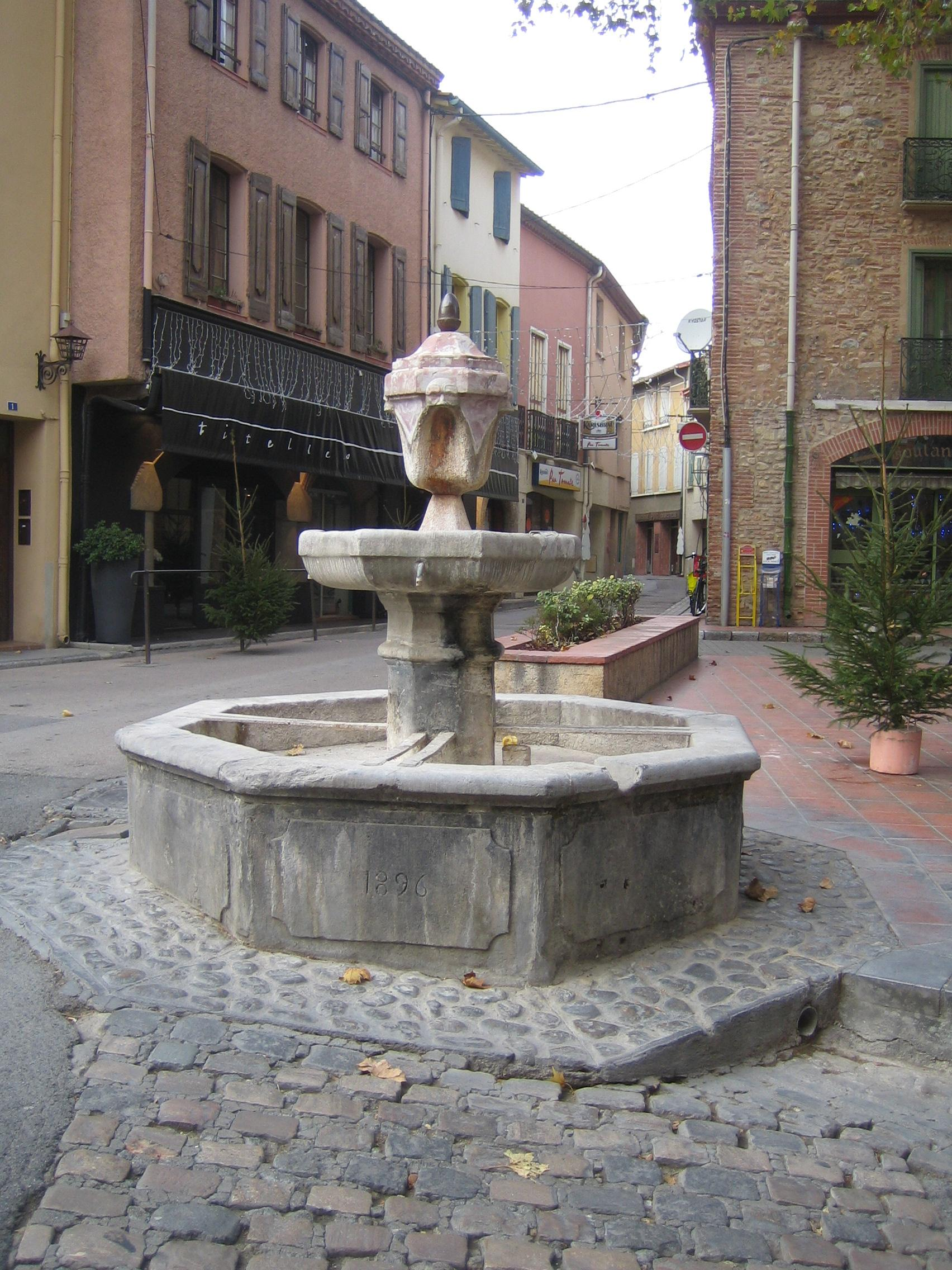 Tuïr (Rosselló)